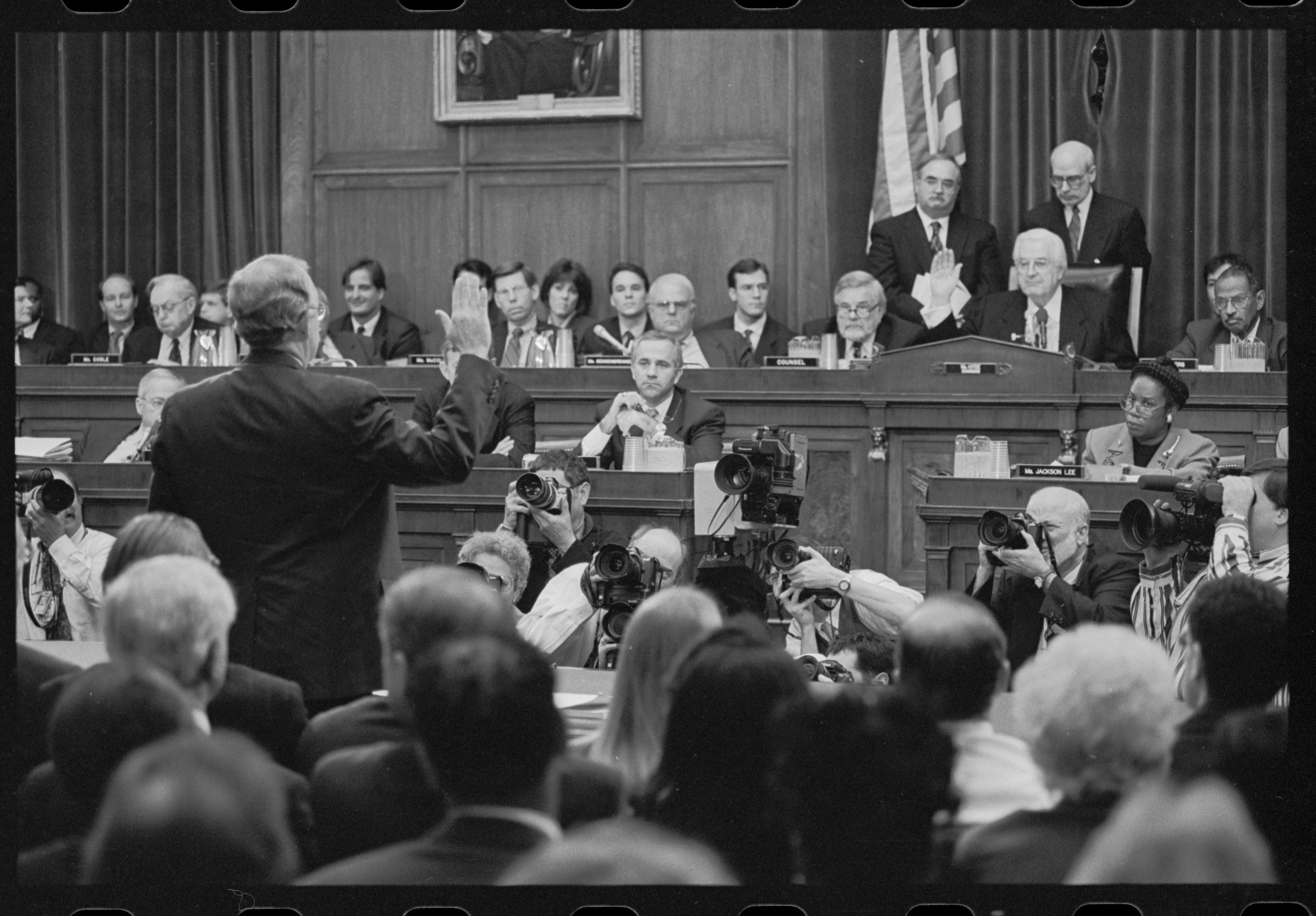 Independent counsel Ken Starr being sworn in prior to testifying about his investigation of President Clinton's relationship with Monica Lewinsky